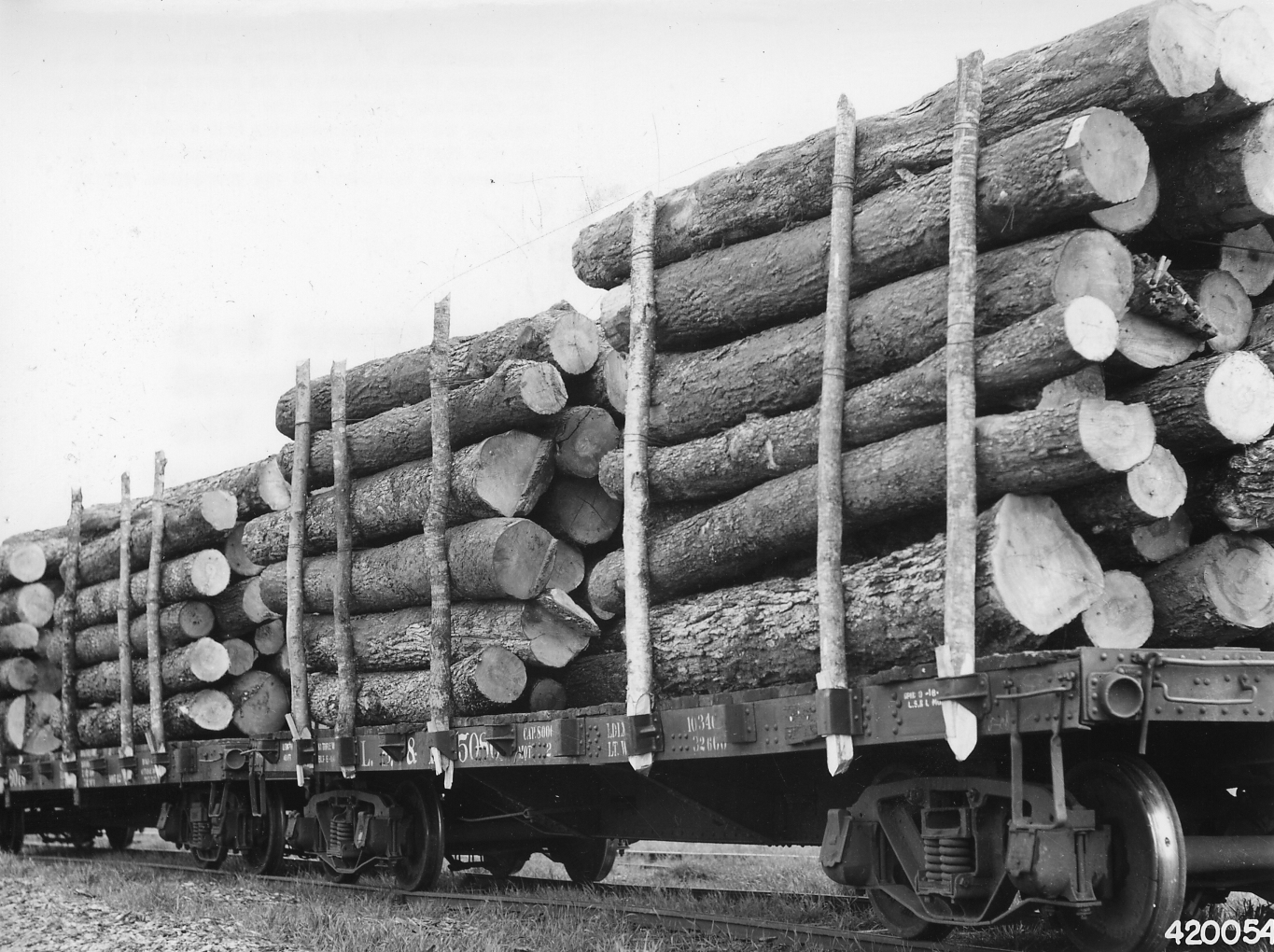 Scope and content: Original caption: Flat car load of woods - run veneer logs at the Northwestern Veneer and Plywood Corporation. The high grade logs are sorted out of these and shipped to the Birds Eye Veneer Co.